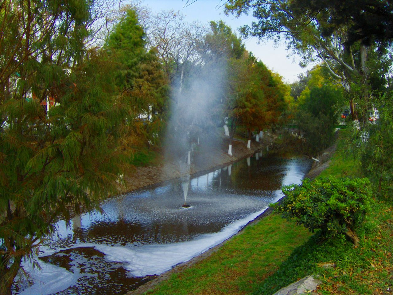 Fountain jet and foam in the Querétaro River, Santiago de Querétaro, Mexico.